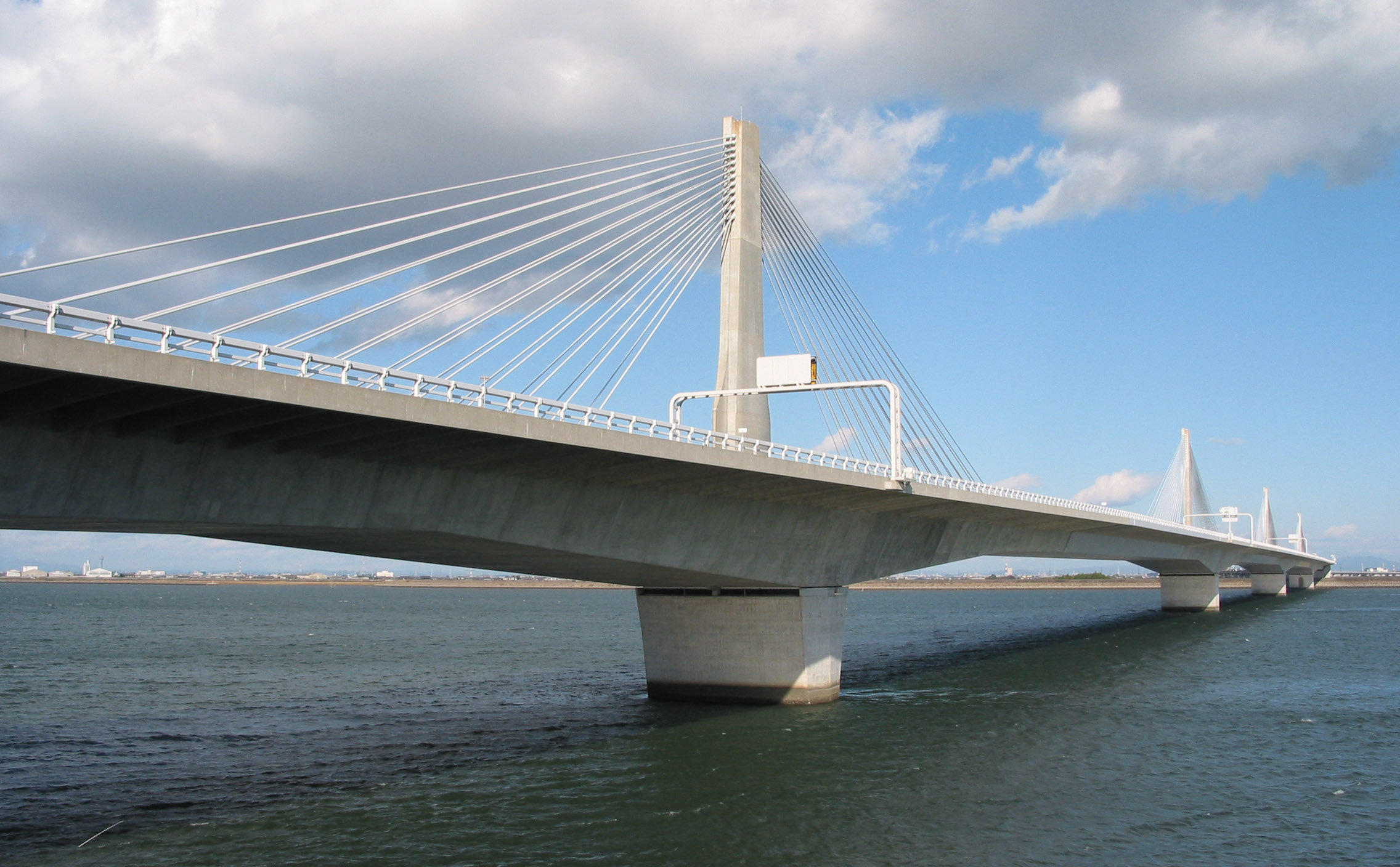 Twinkle-Kisogawabashi (Extradosed bridge across the Kiso-river)